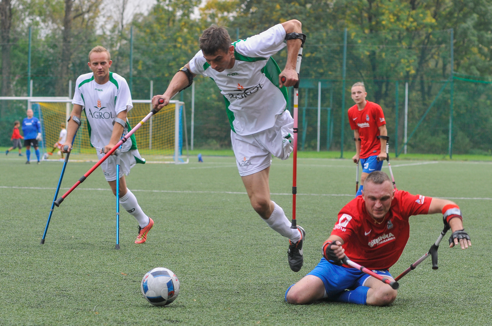 Amp Soccer, Amp football. Amp Fubol Ekstraklasa Poland. League Cup. Amputee football. Sports persons with disabilities